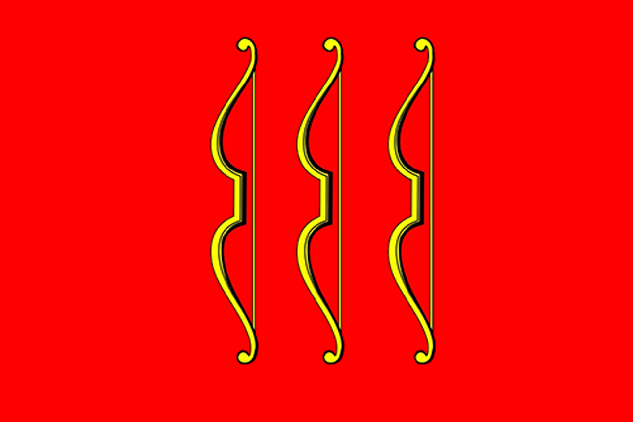 Velikie Luki (Pskov oblast), flag